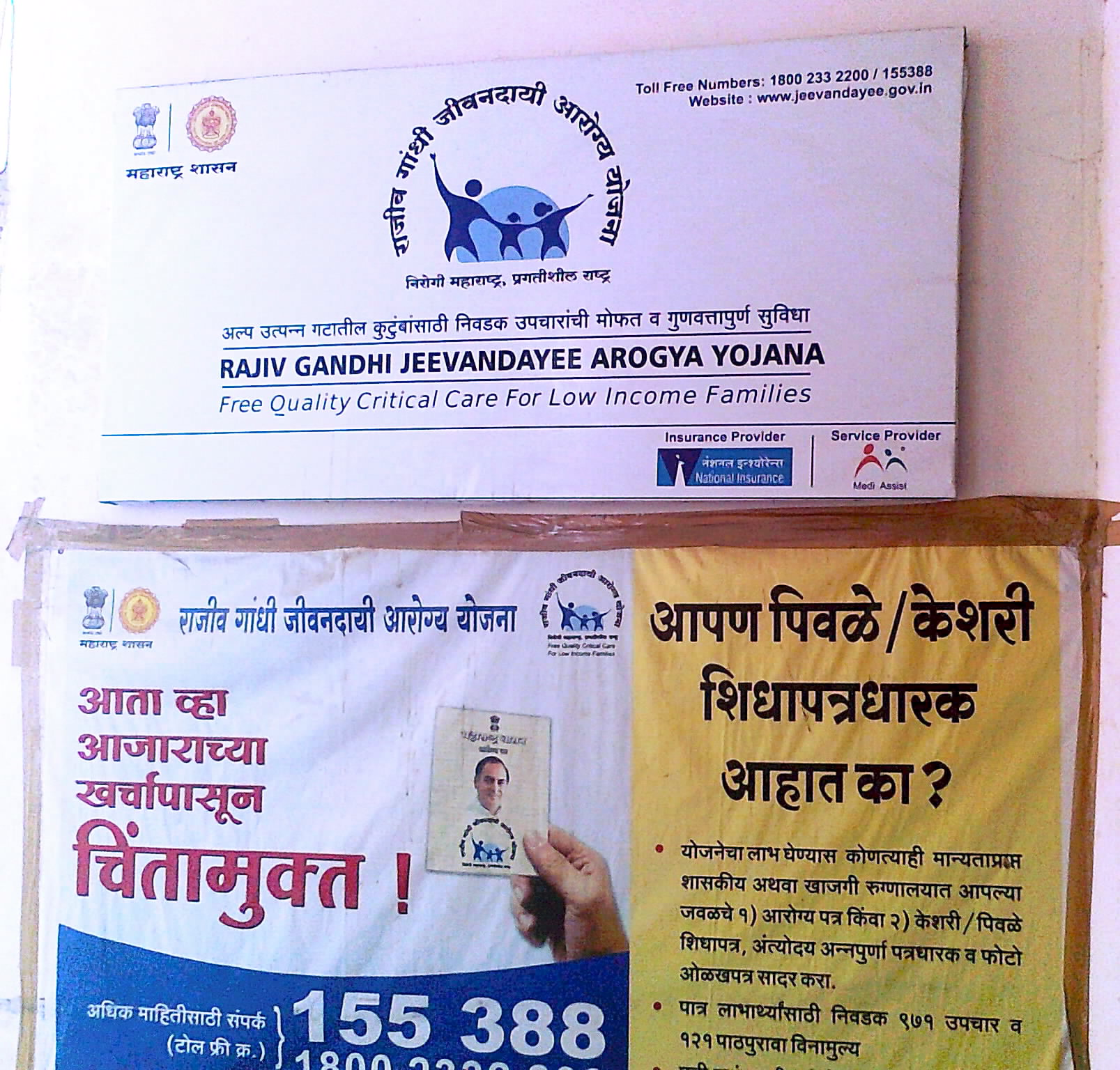 Rajiv Gandhi Jeevandayee Arogya Yojana (RGJAY) wall-poster in Dr Ulhas Patil Medical College And Hospital at Jalgaon, India